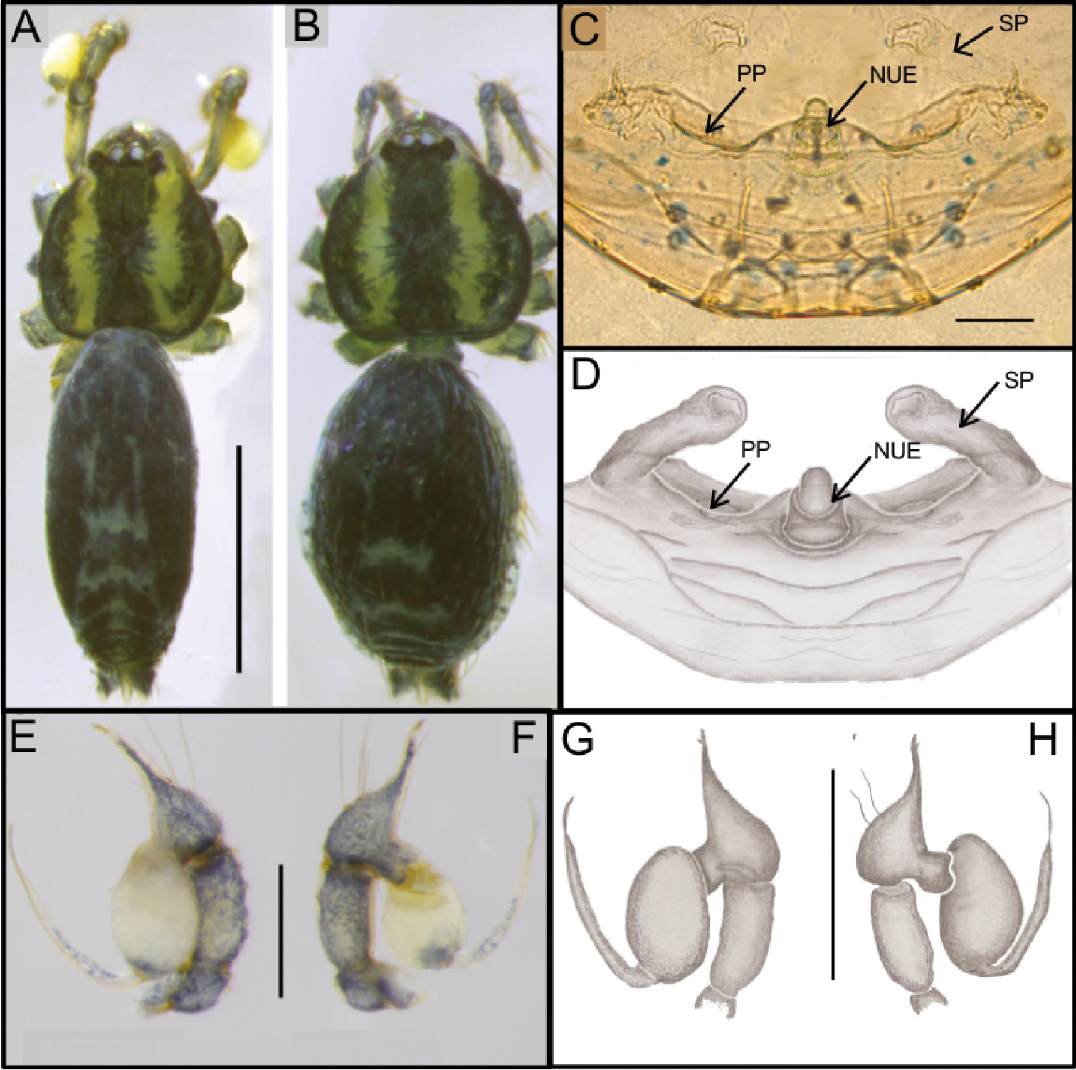 Ochyrocera ungoliant sp. n., male holotype (A, E–H), female paratype, IBSP 174062 (B–D) A–B habitus, dorsal view C genitalia, enzyme cleared, dorsal view D same, dorsal view E same, prolateral view F same, retrolateral view G left palp, prolateral view H same, retrolateral view. Abbreviations: NUE = neck of uterus externus, PP = pore-plate, SP = spermathecae. Scale bars: 0.5 mm (A, B); 0.7 mm (C, D); 500 µm (E, F).